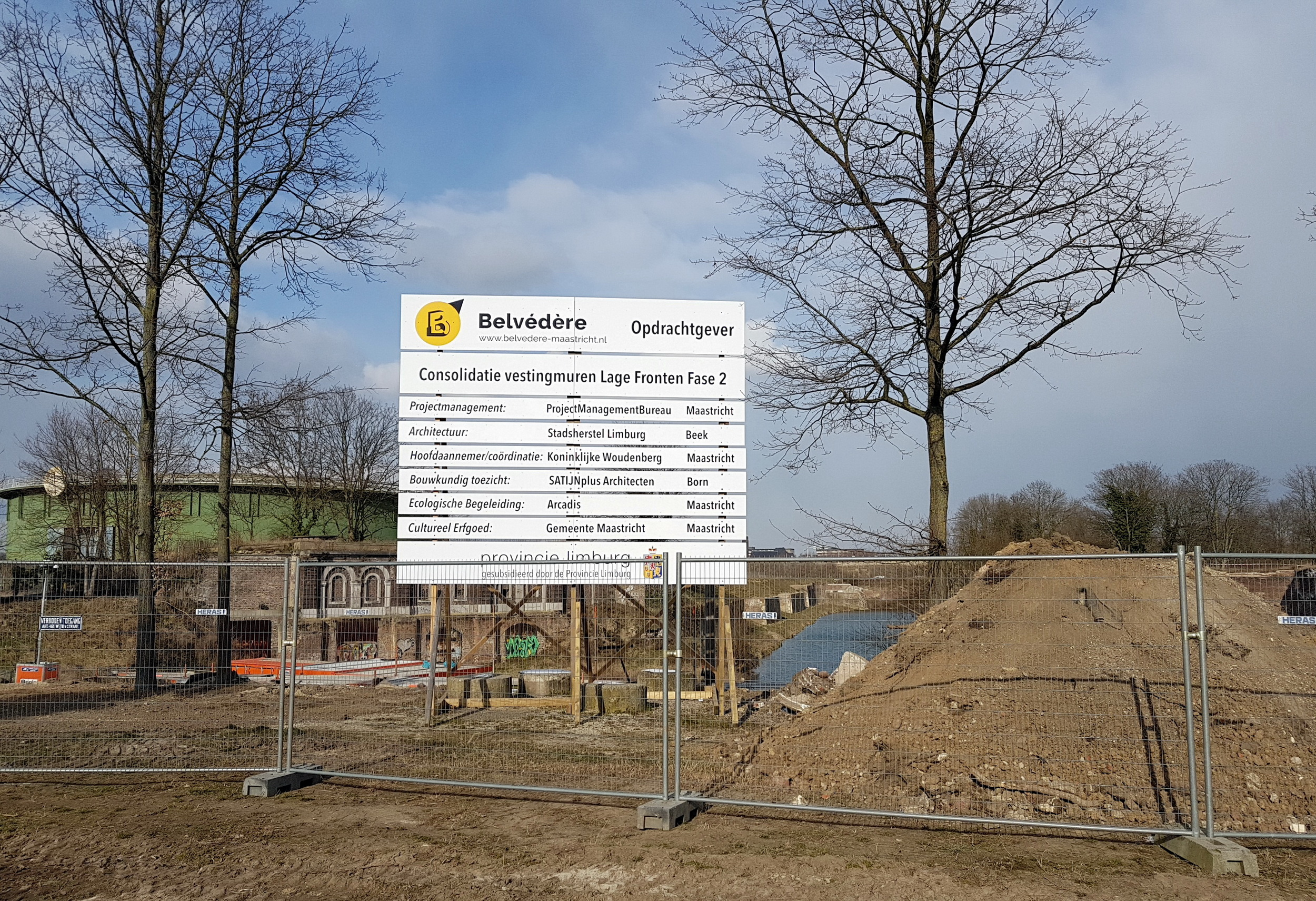 Restoration of the Nieuwe Bossche Fronten fortifications in Frontenpark in Maastricht, the Netherlands. To the left: the casemate of ravelin a and the gasometer.